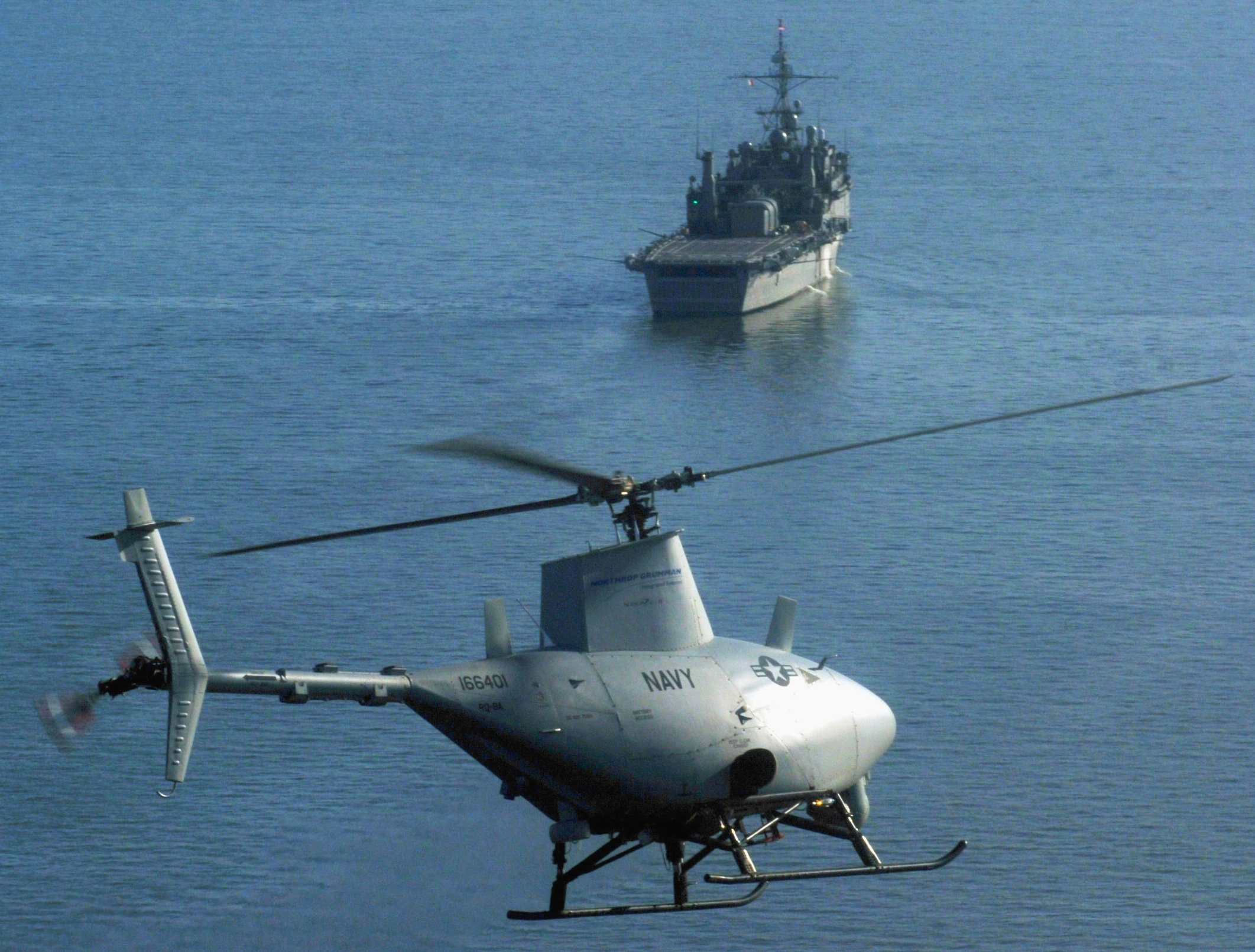 Cropped version of Image:Fire Scout unmanned helicopter.jpg.